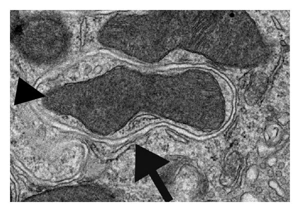 Transmission electron microscopic picture of an autophagic vesicle (arrow) in kidney of tunicamycin injected mouse. Note that in addition to cytoplasmic material, a mitochondrium (arrowhead) is also engulfed inside the double membrane vesicle.